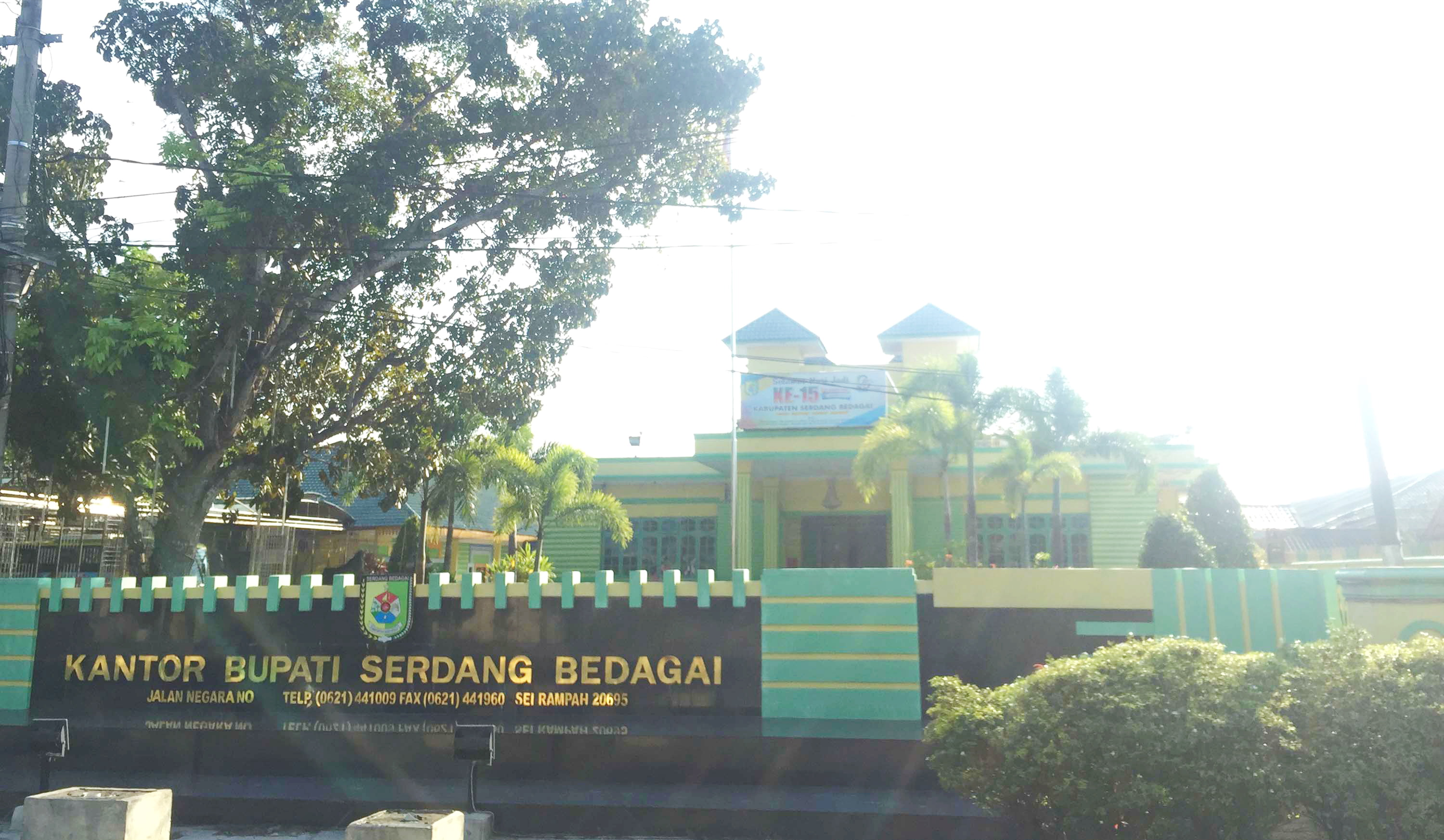 Office of Serdang Bedagai Regency, North Sumatra